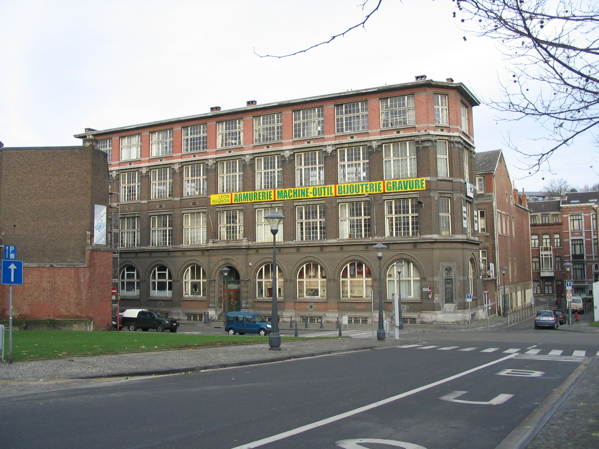 Leon Mignon school in Liege, Belgium